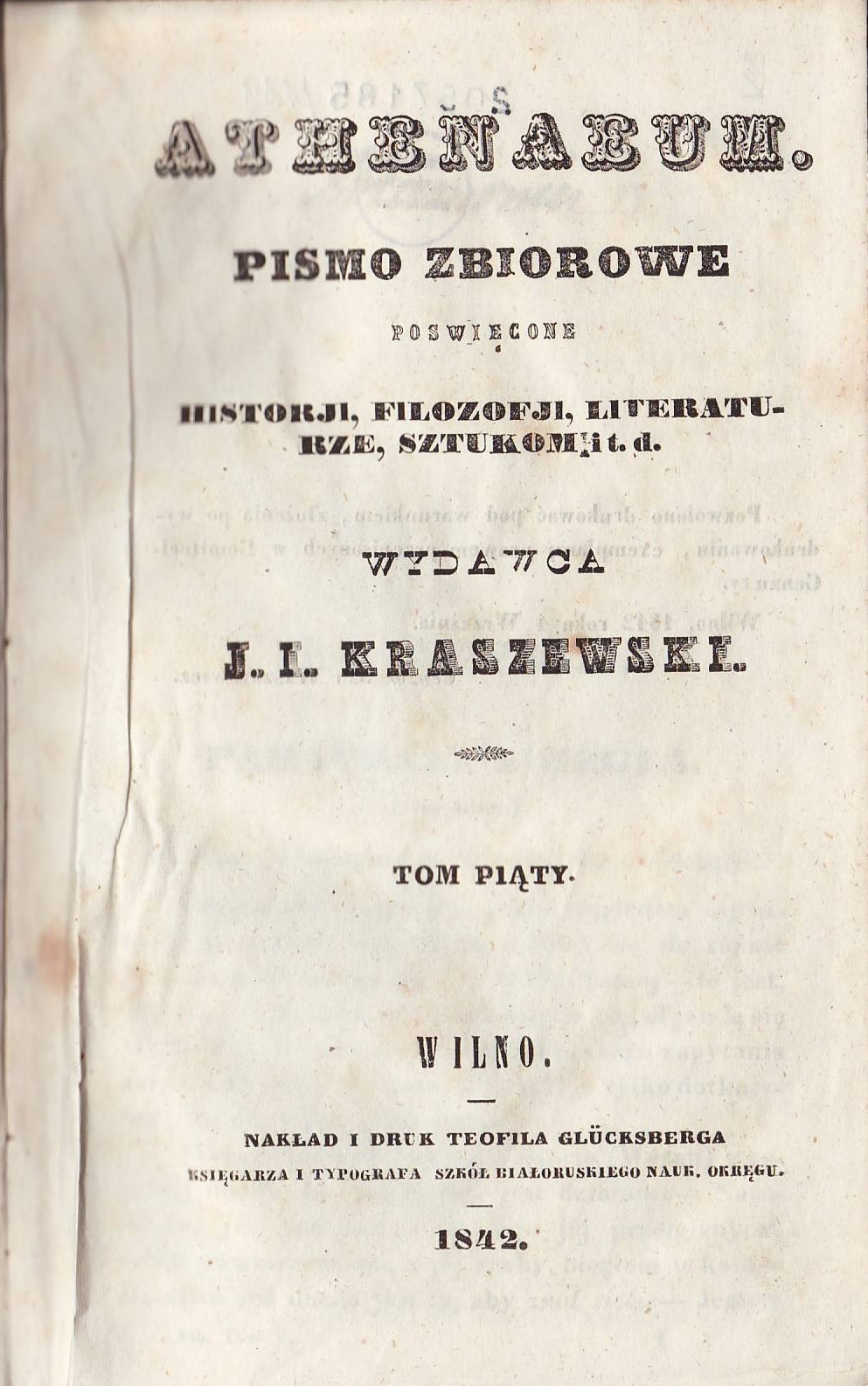 Title page of the magazine Athenaeum, edited by Józef Ignacy Kraszewski in Wilno. 1842, vol. 5